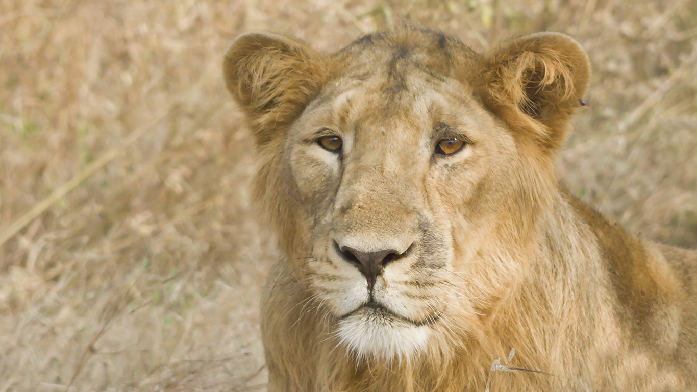 Subadult